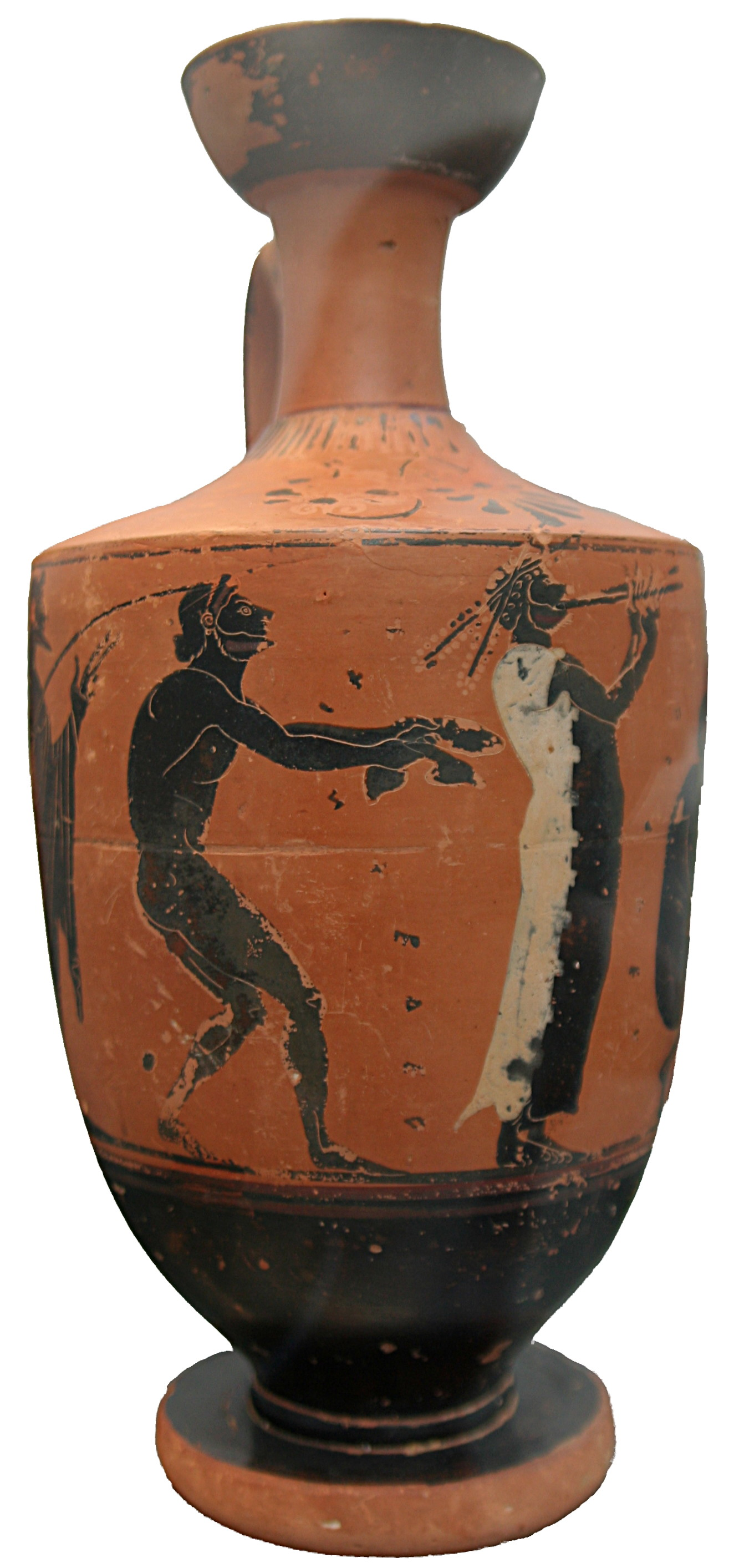 Athlet holding jumping weights and aulos player. Attic black-figure lekythos, 525–500 BC. From Sicily.